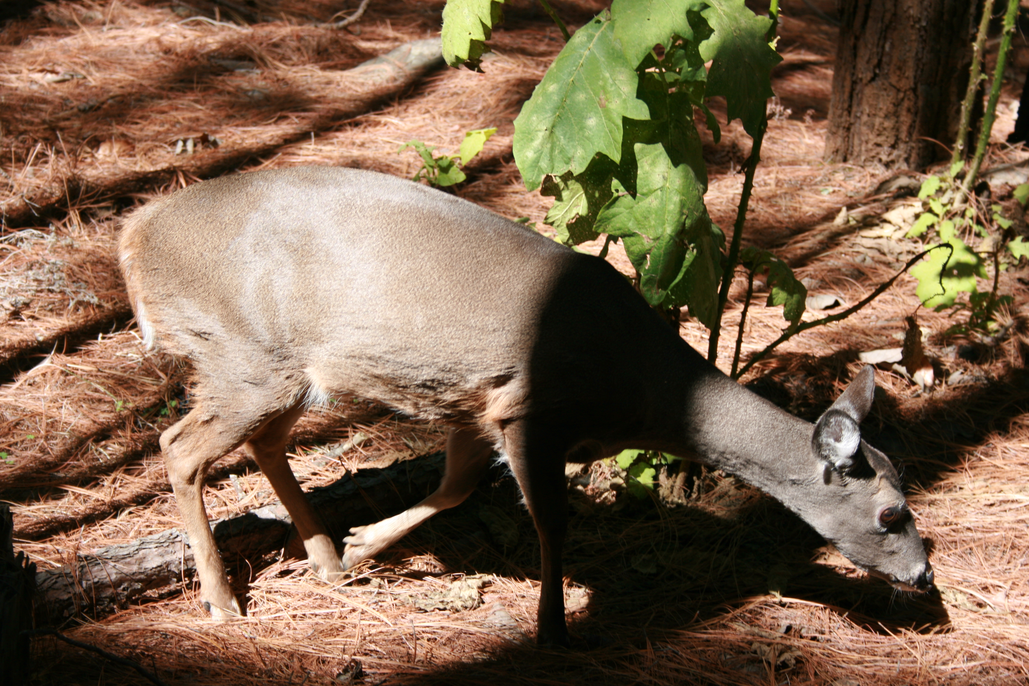 White tail deer